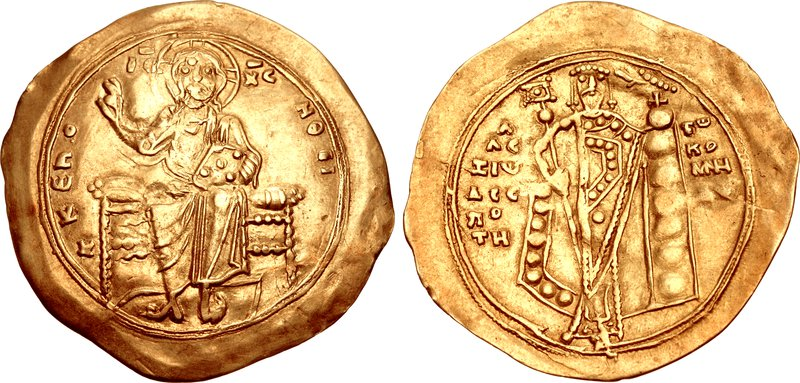 Alexius I Comnenus. 1081-1118. AV Hyperpyron (30mm, 4.15 g, 6h). Post-reform period. Second coinage. Constantinople mint. Struck 1092/3-1118. Christ Pantokrator enthroned facing, raising hand in benediction / Alexius standing facing, holding labarum with pellet on shaft and globus cruciger, being crowned by manus Dei to right; exaggerated jewelling in chlamys. DOC 20g; SB 1913. VF, slightly wavy, die cracks.